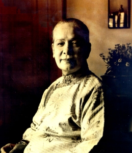 Portrait of Sir Robert Ho Tung